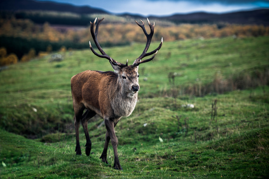 The red deer is one of the largest deer species. The red deer inhabits most of Europe, the Caucasus Mountains region, Asia Minor, Iran, parts of western Asia, and central Asia.